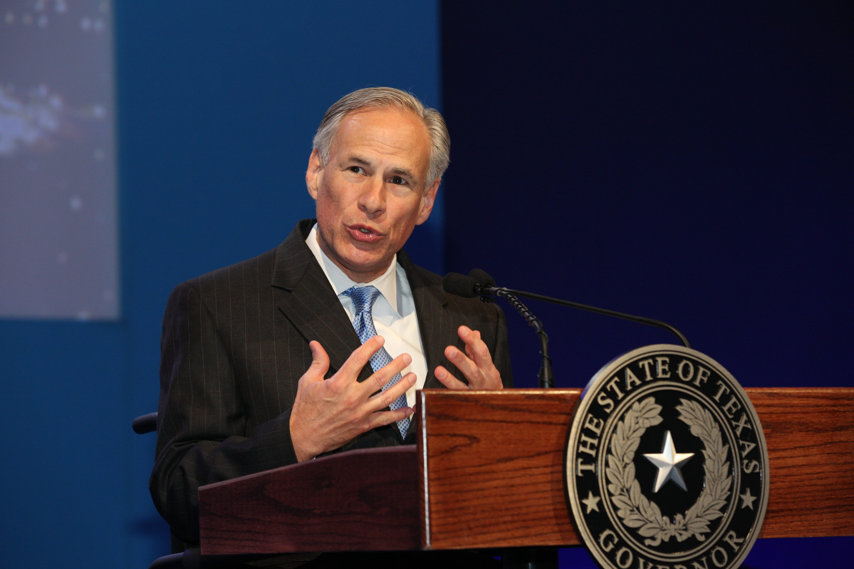 WTTC Global Summit 2016 World Travel & Tourism Council Flickr images